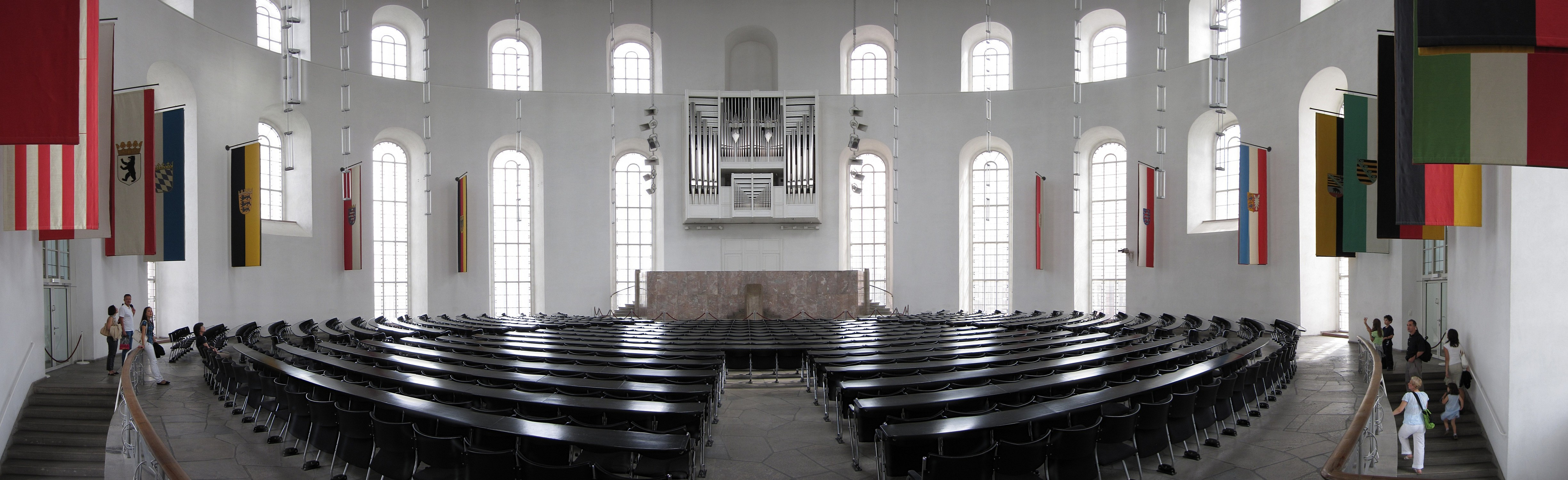 Paulskirche_Frankfurt Main_Germany_PANORAMIC